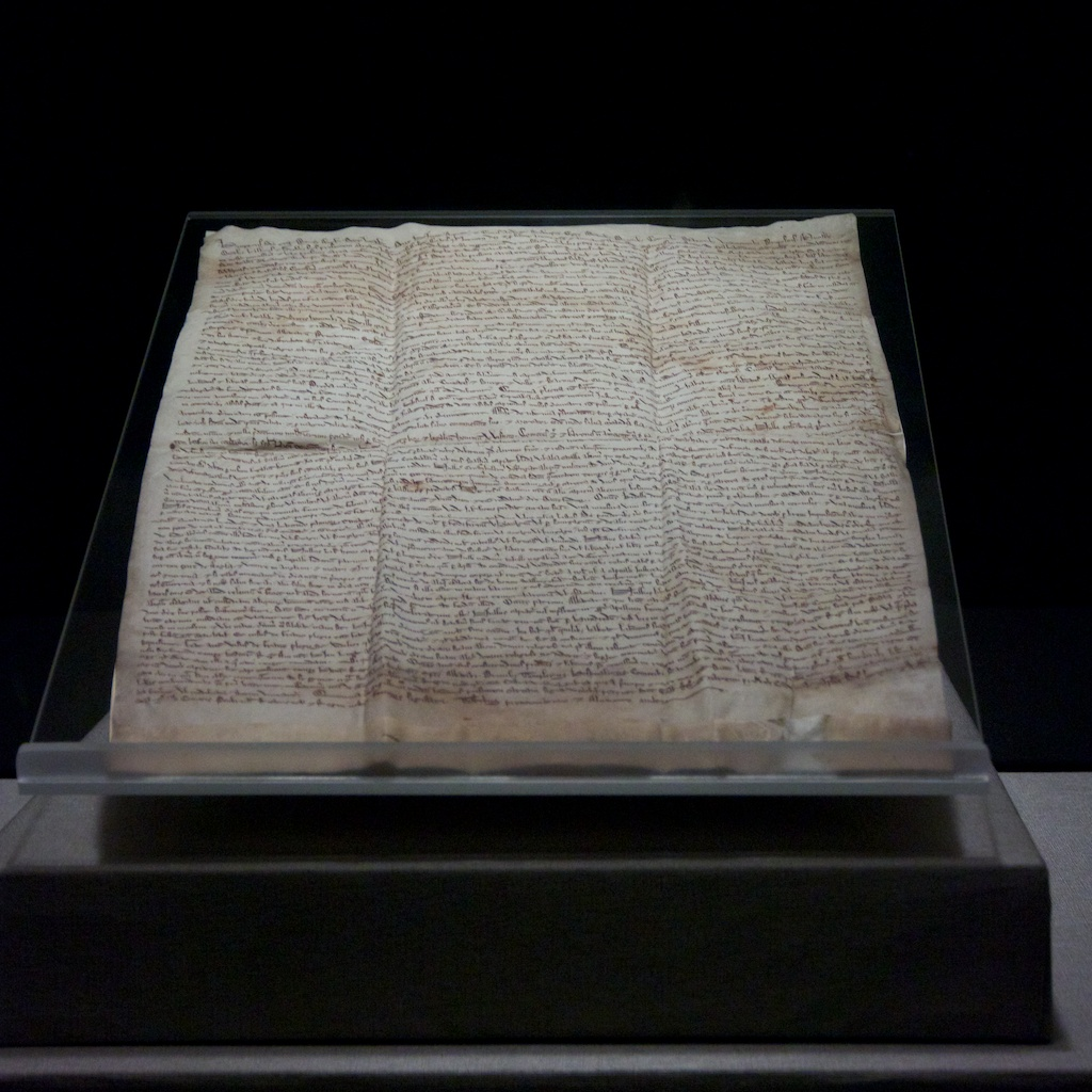 Magna Carta from Houston Museum of Natural Science